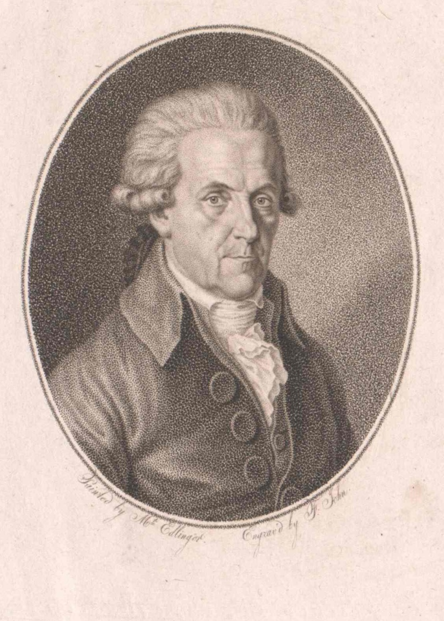 Austrian and Bohemian ophthalmologist, professor of Ophthalmology